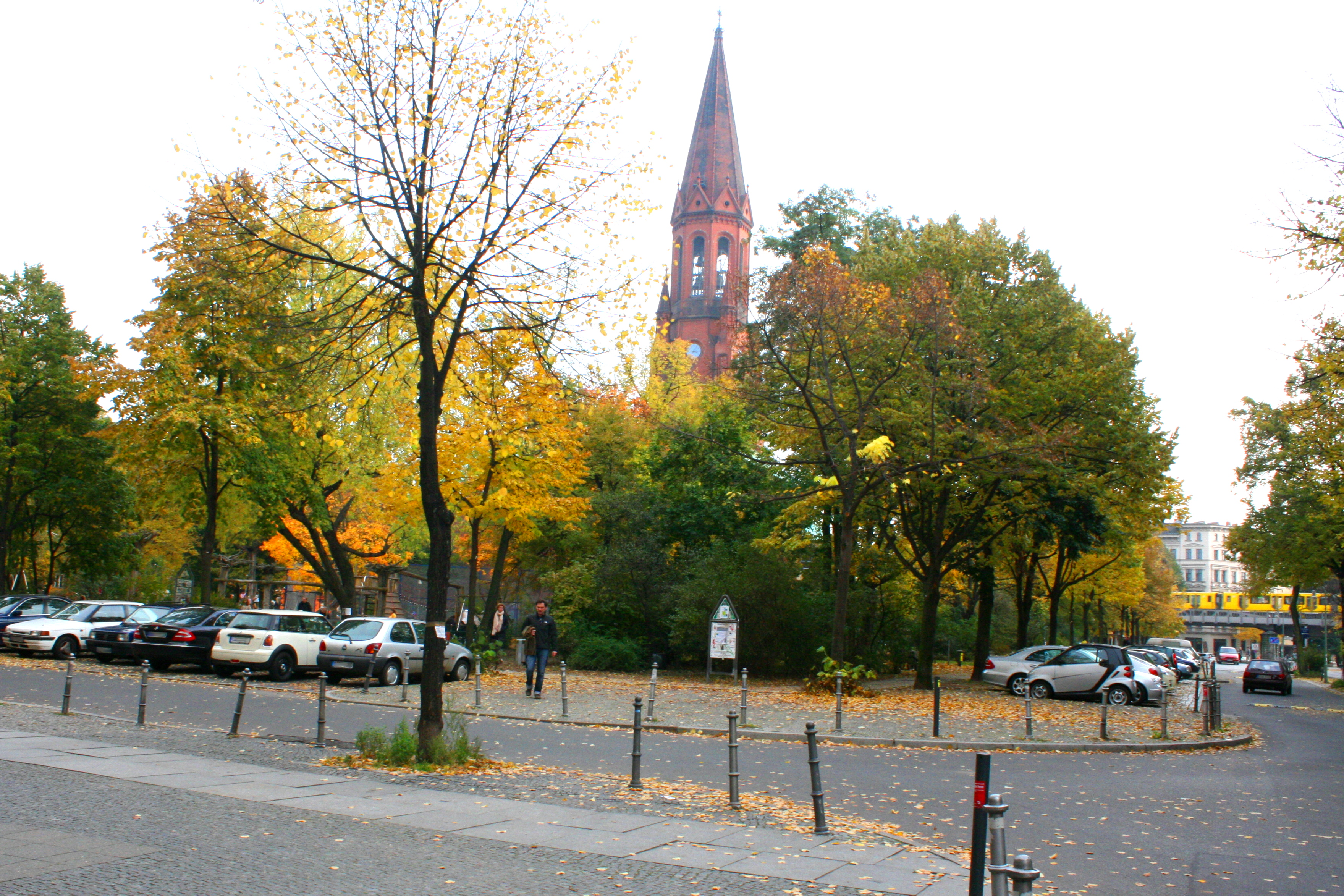 Lausitzer Platz in Berlin Kreuzberg, view from north-west